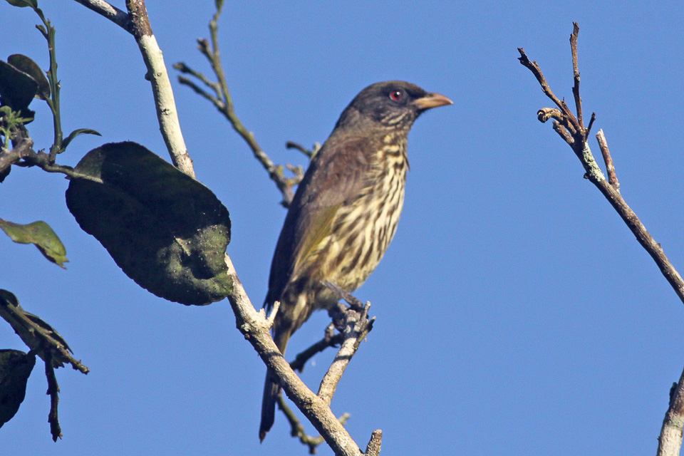 Los Haitises National Park